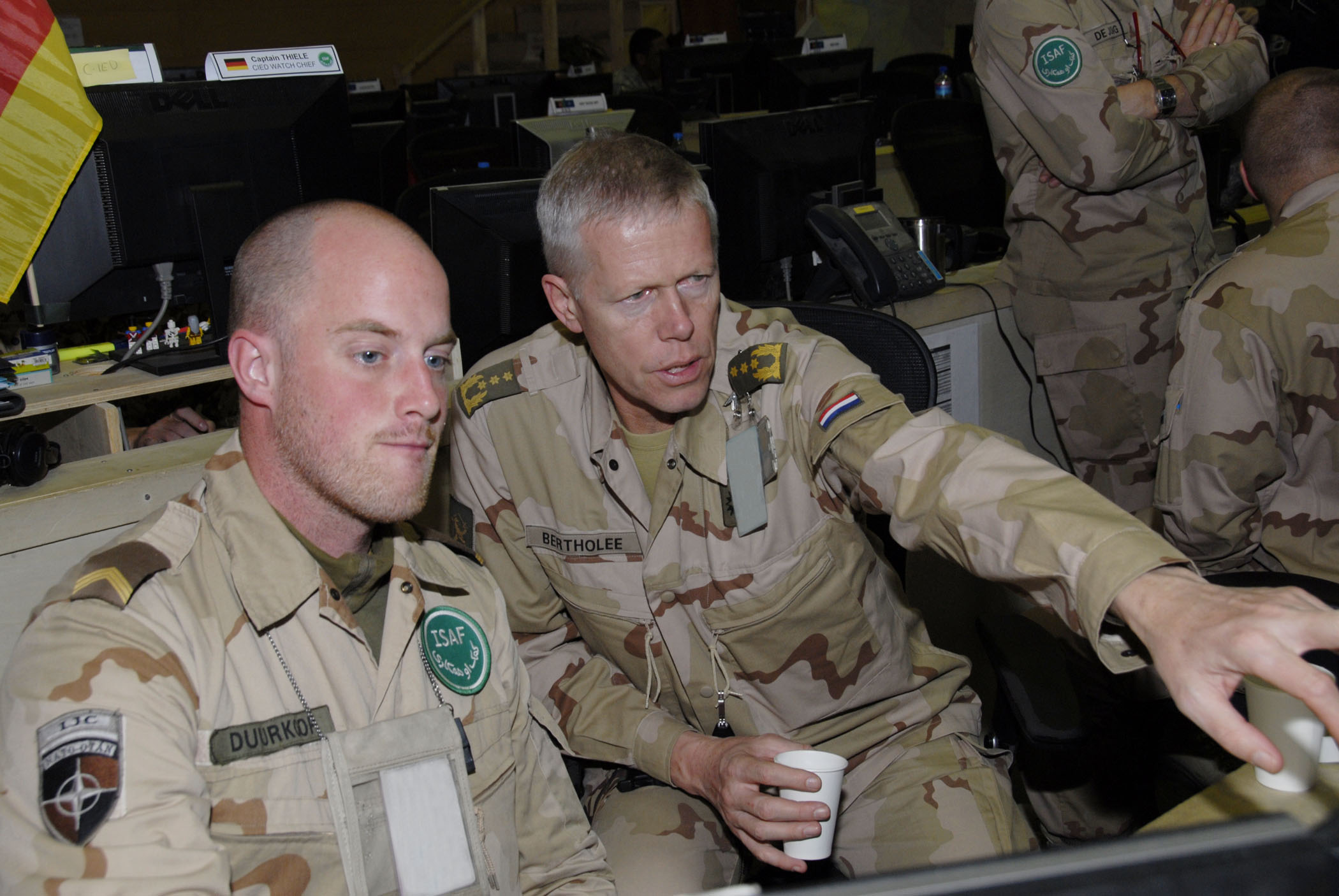 KABUL, Afghanistan - International Security Assistance Force Joint Command Dutch Army Sgt. Peter Duurkoop gives Commander of the Royal Netherlands Army Lt. Gen. Robert A.C. Bertholee a brief overview of his duties during a visit to the Combined Joint Operations Center. (ISAF Joint Command photo by U.S. Air Force Master Sgt. Matthew Millson)